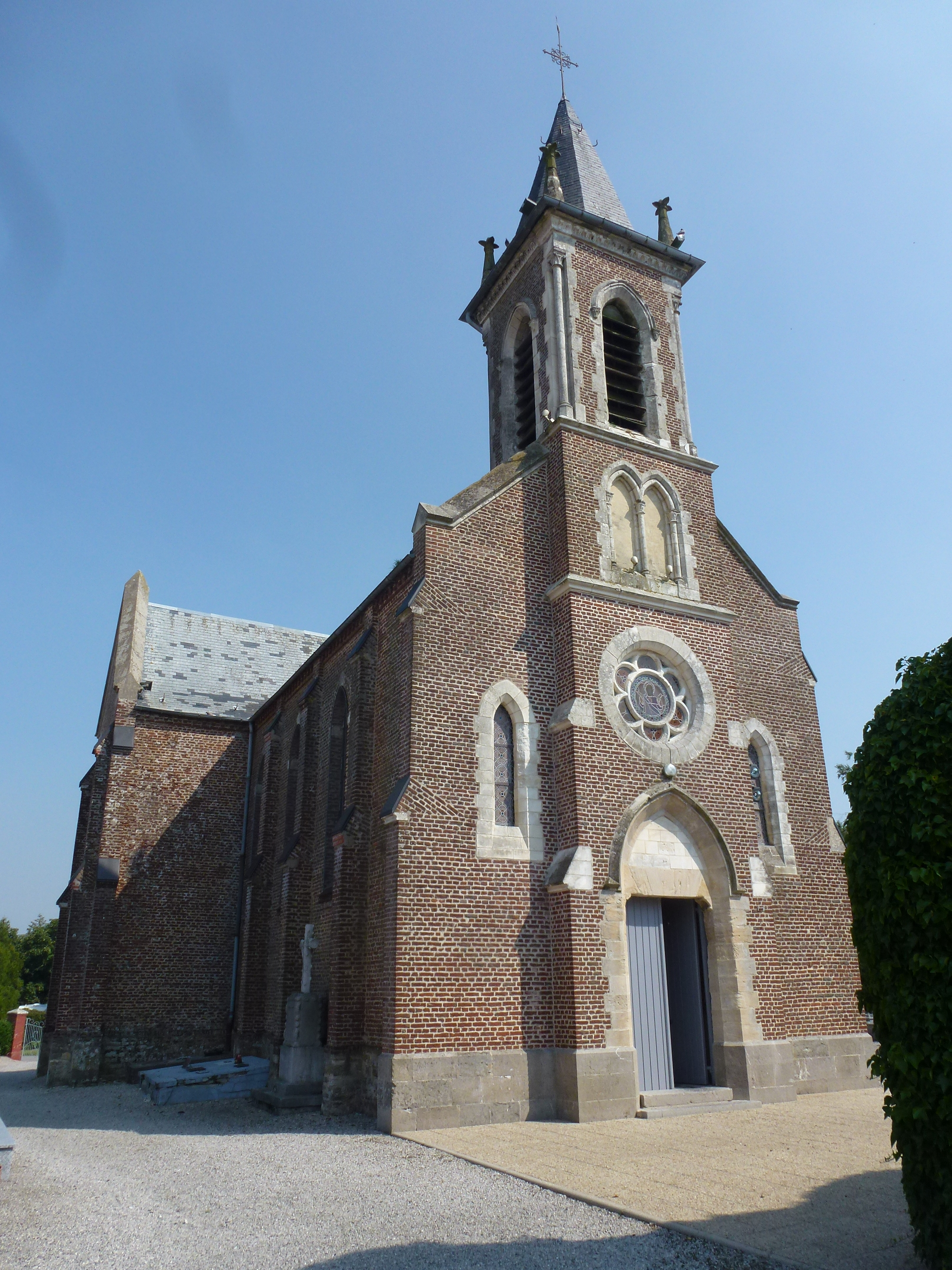 Herbinghen (Pas-de-Calais) église, façade avec tour